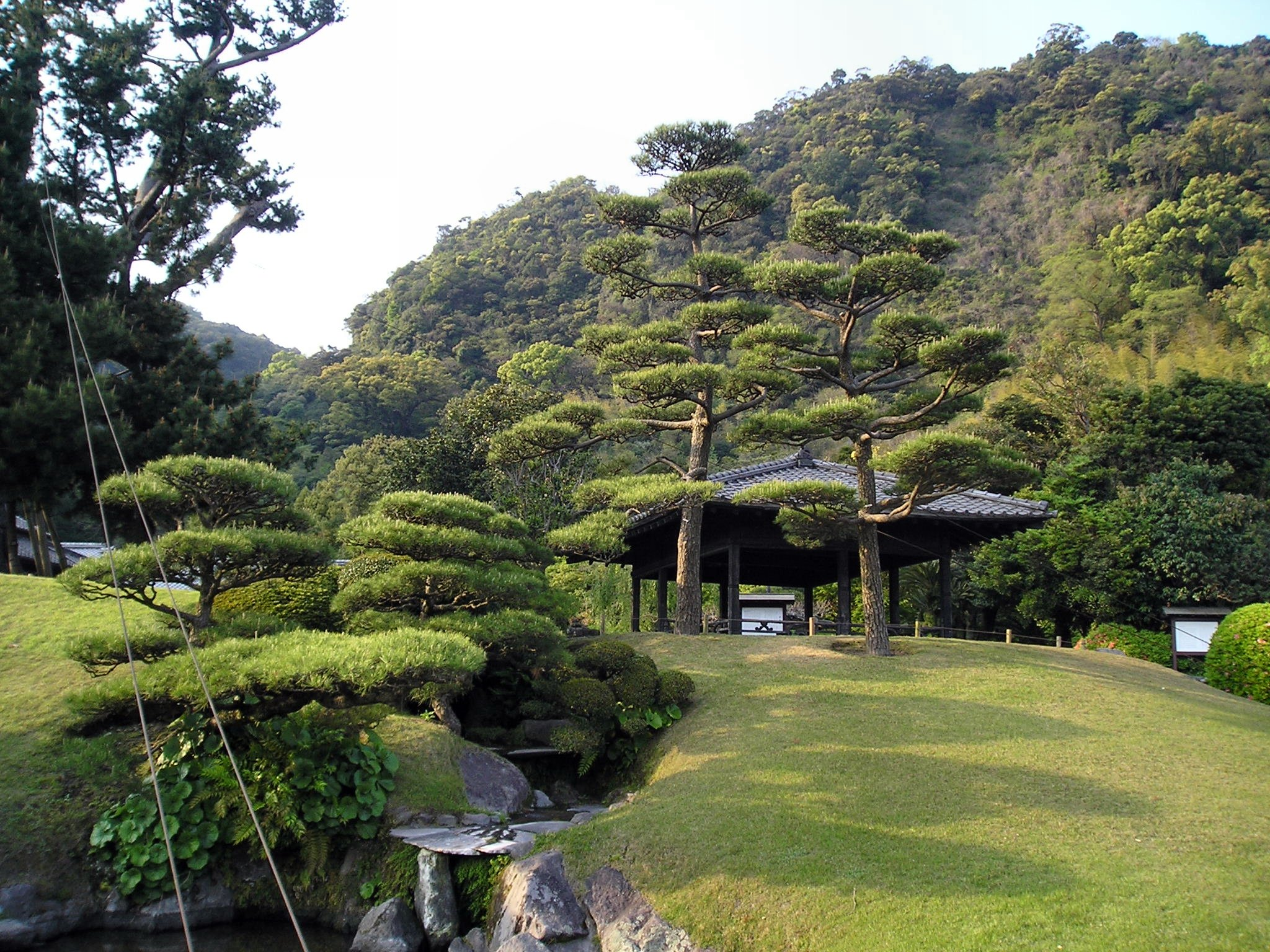 Sengan-en, Kagoshima City, Japan